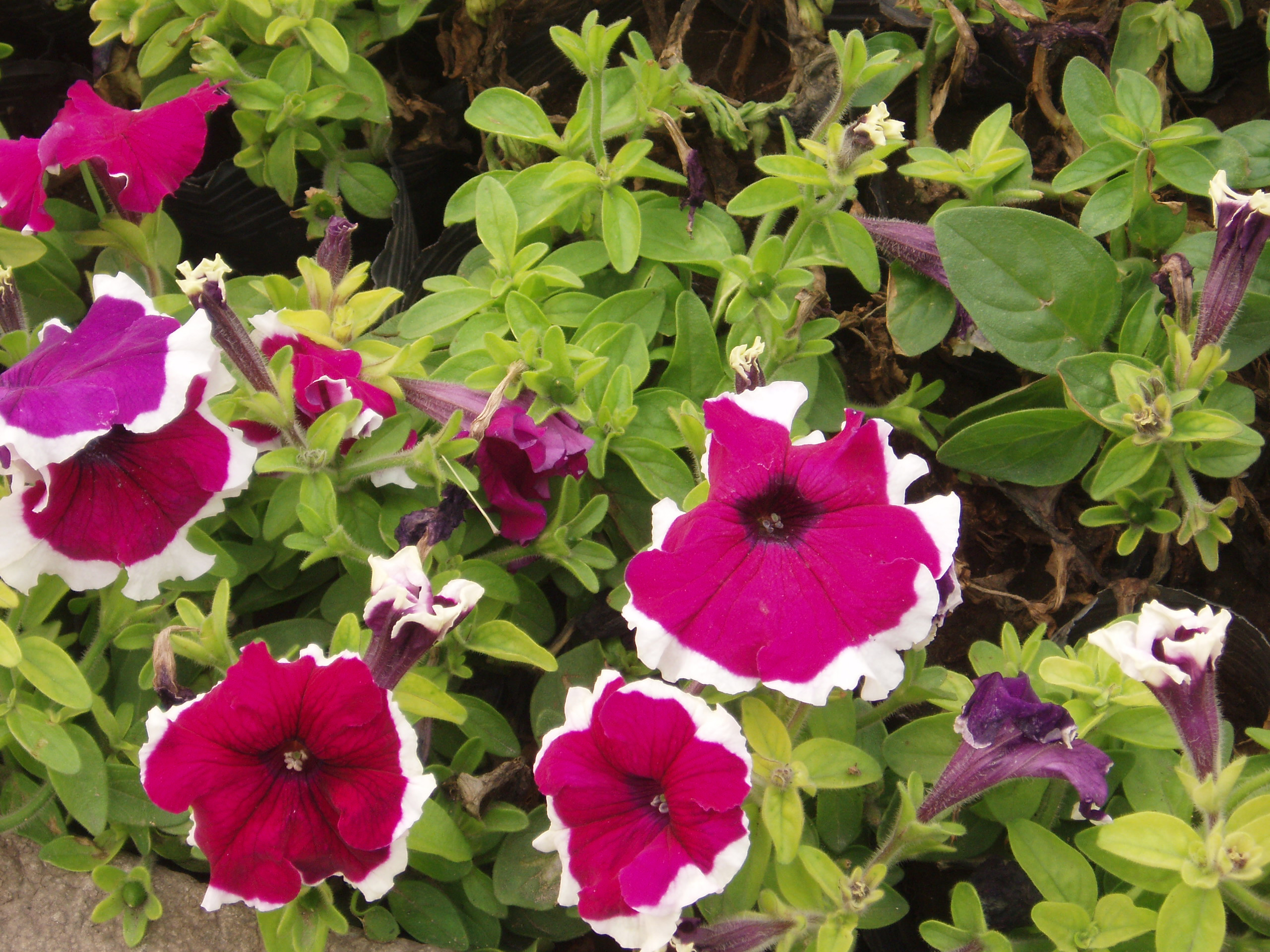 Double wave flowers.